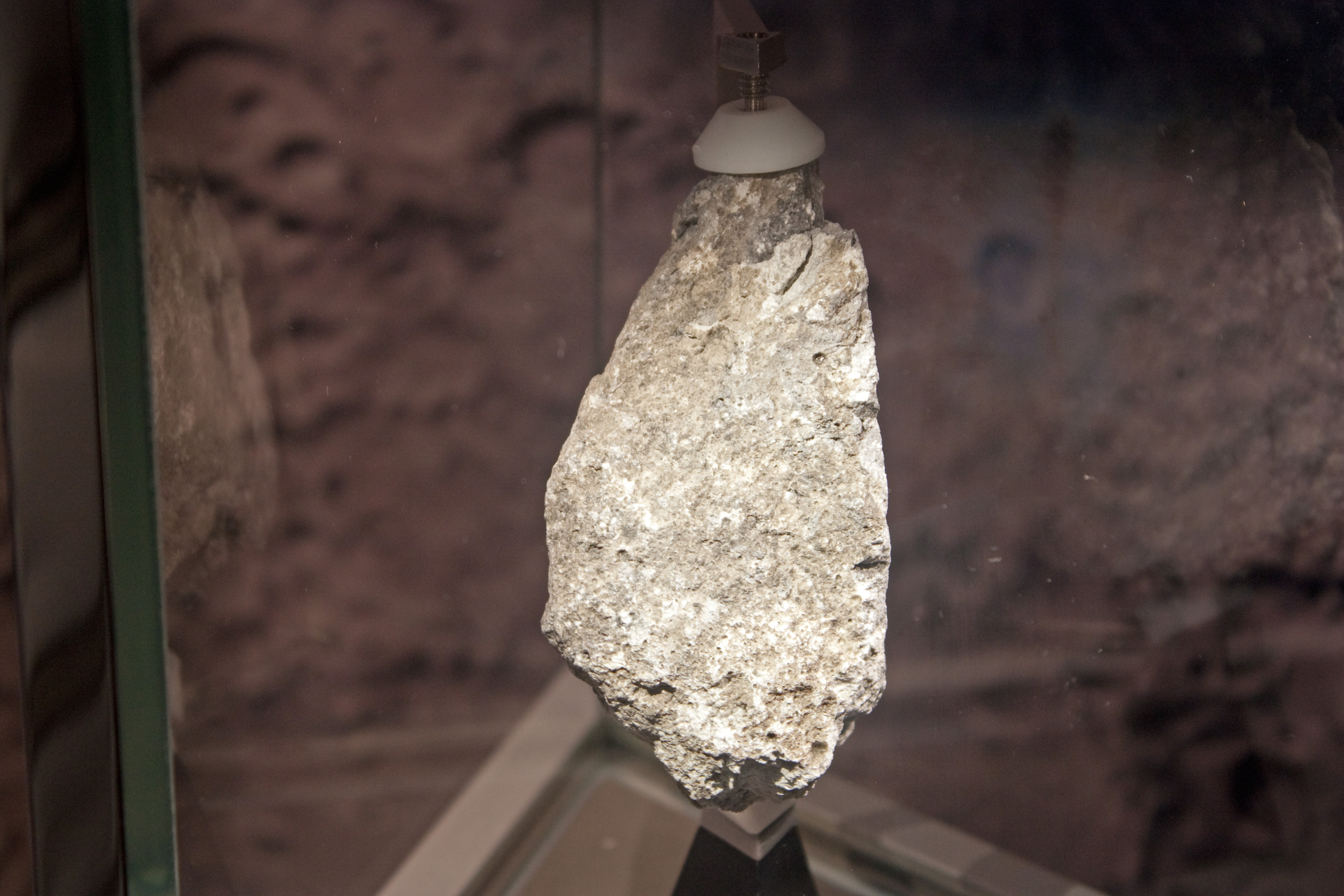 Polymict Breccia 67915 sample collected from the moon by the Apollo 16 mission. On display in the National Museum of Natural History.